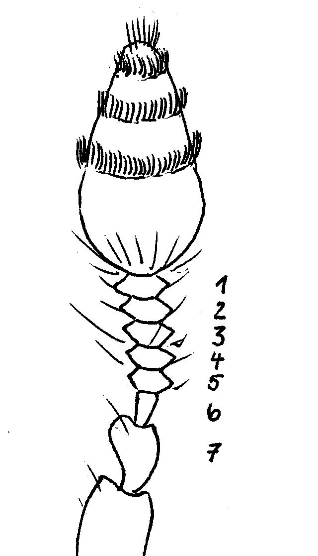 01_Hylurgops_palliatus_funicle_Prinzip.